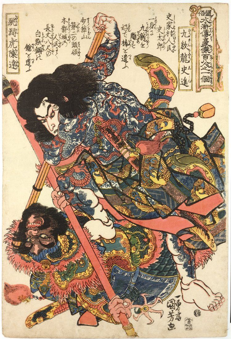 Shi Jin ( 史進) stripped to the waist and heavily tattooed, struggles with Chen Da (陳達), both armed with staffs.